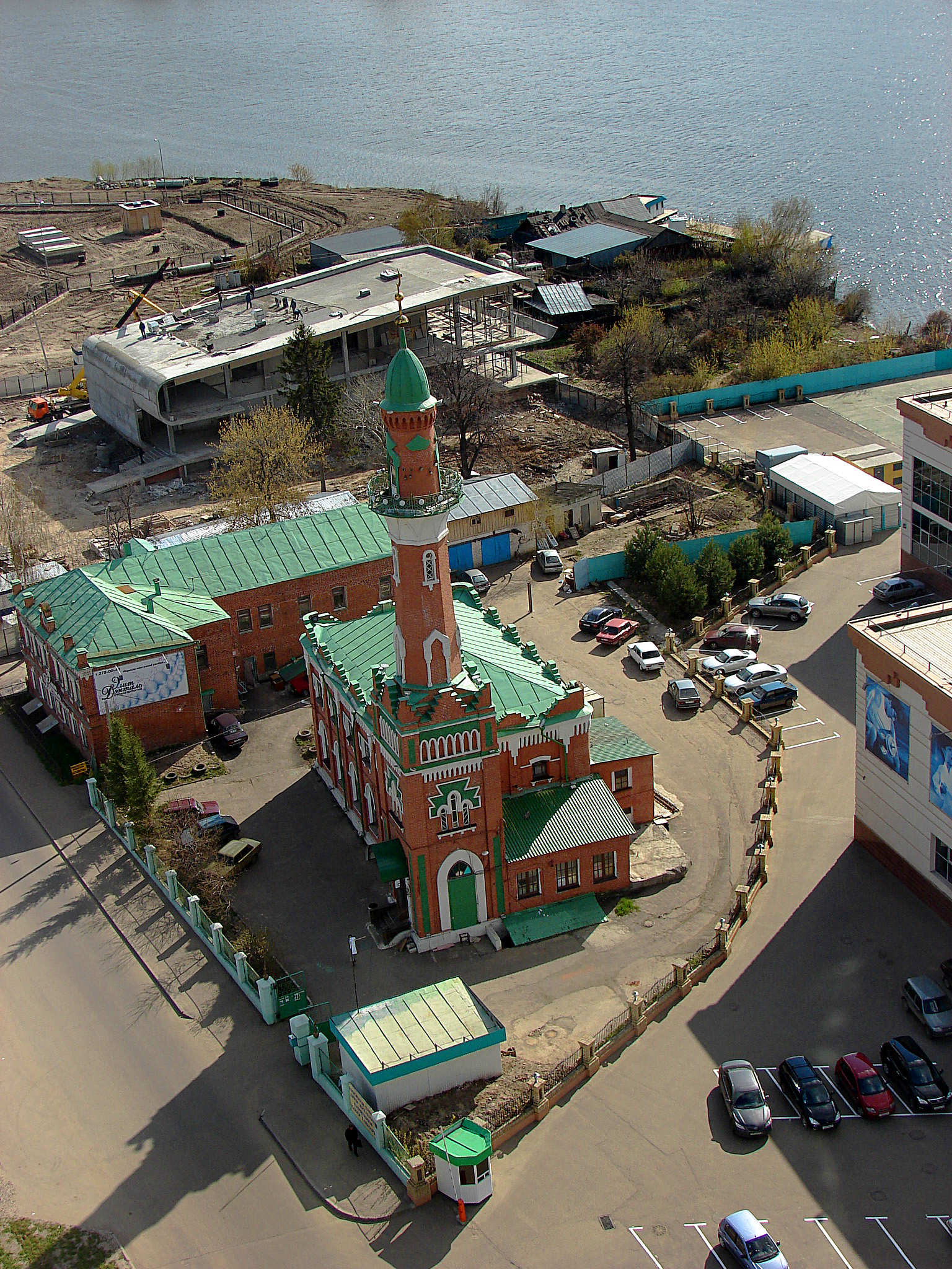 The Thousandth Anniversary of Islam Mosque, Kazan, Russia